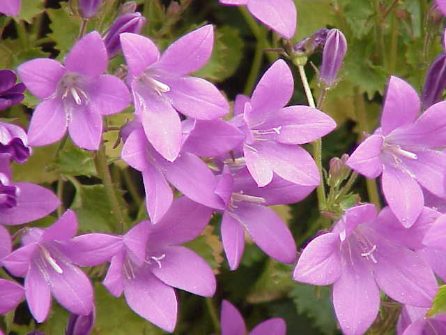 Species: Arenaria procera glabra Family: Caryophyllaceae Image No. 1